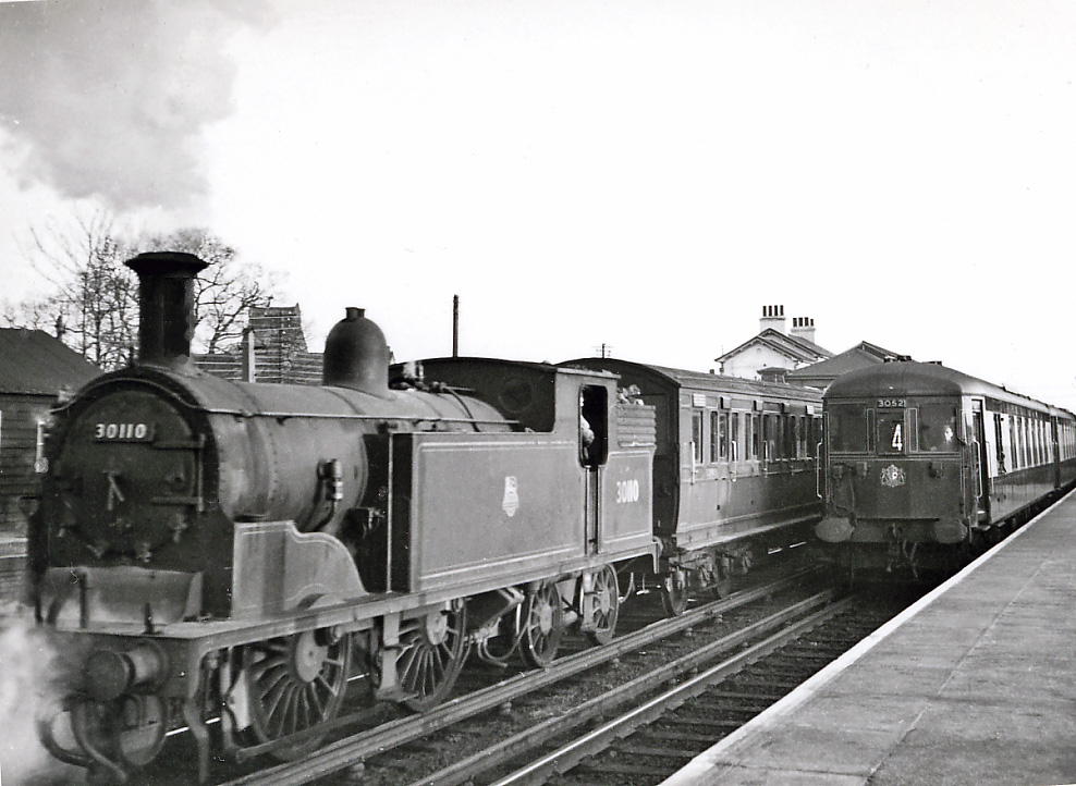 Up 'Brighton Belle' passing auto-train to East Grinstead in Three Bridges station. View southward, towards Brighton etc., also to the Coast via Horsham and to East Grinstead: ex-LB&SC main line and branches. Motor-fitted ex-LSW Drummond M7 class 0-4-4T No. 30110 (built 3/1904, withdrawn 5/63) is propelling its train to East Grinstead: the Pullman 'Brighton Belle' EMU is passing at speed on one of two non-stop runs made each day in 60 minutes between Brighton and Victoria.